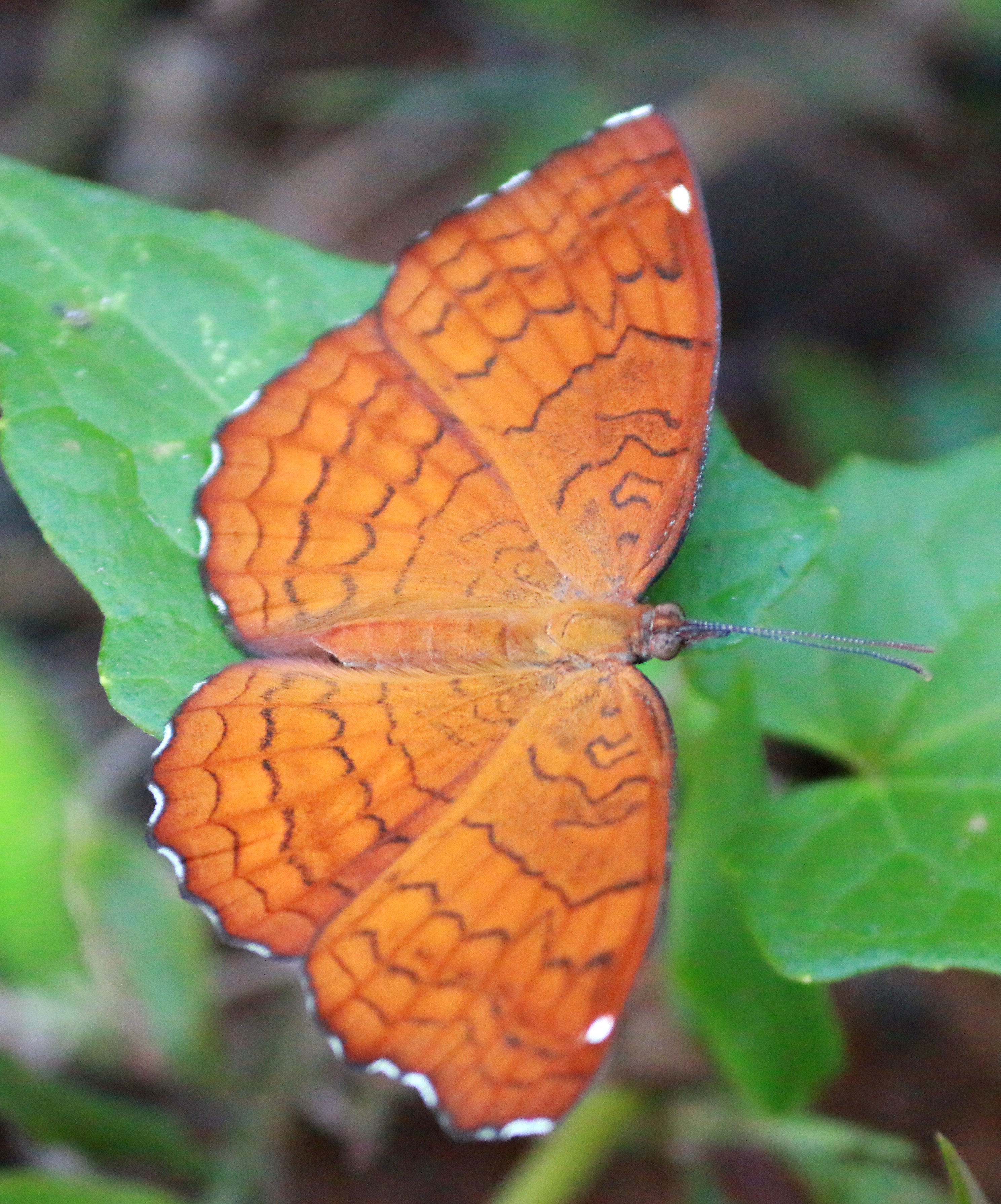 Angled castor